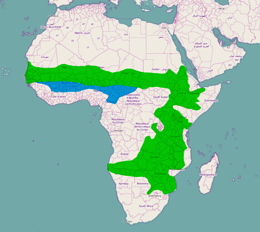 Distribution area of Greater Blue-eared Glossy Starling (Lamprotornis chalybaeus)